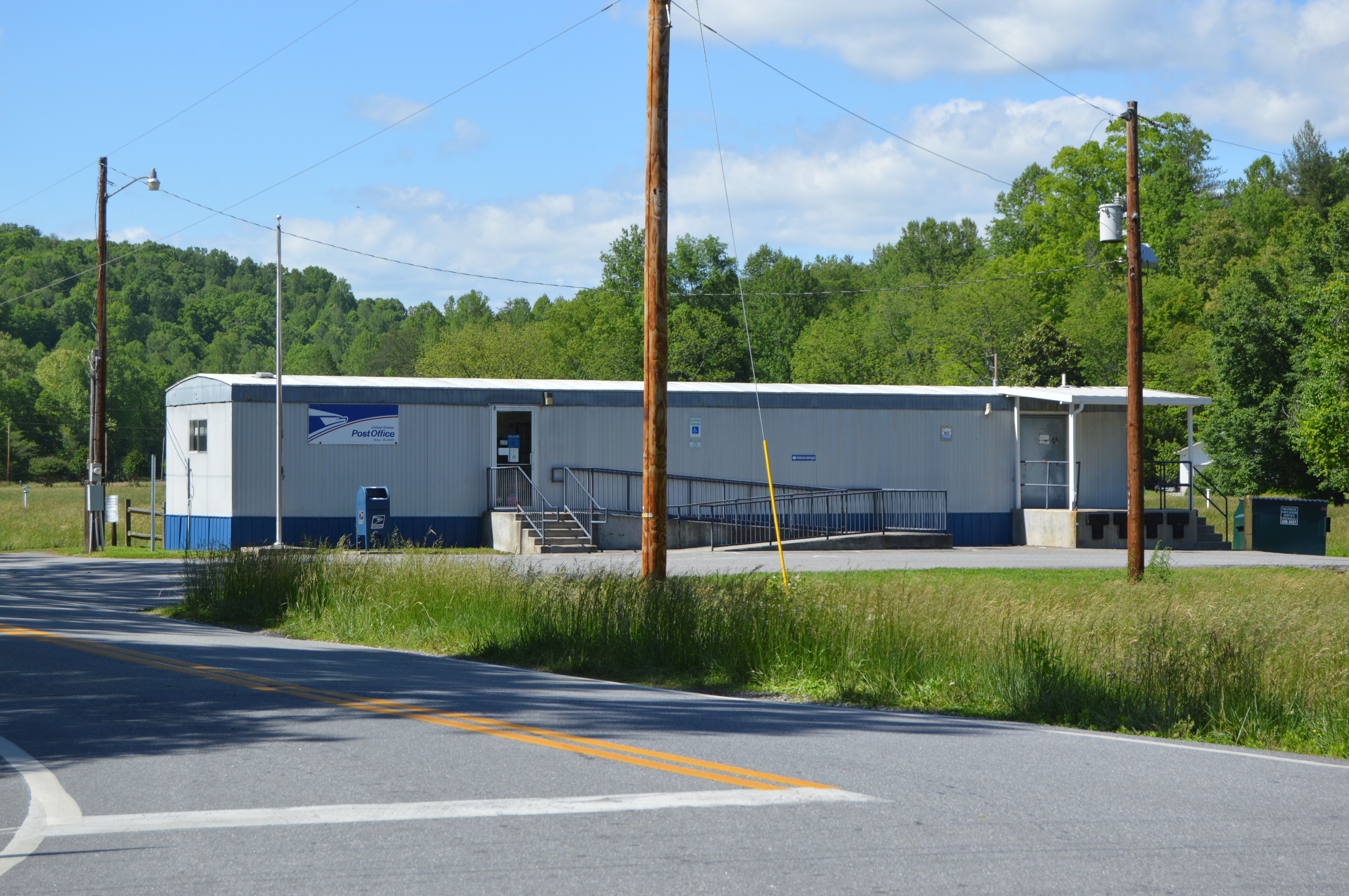 Front of the Henry post office, located in the Franklin County section of Henry, Virginia, United States.